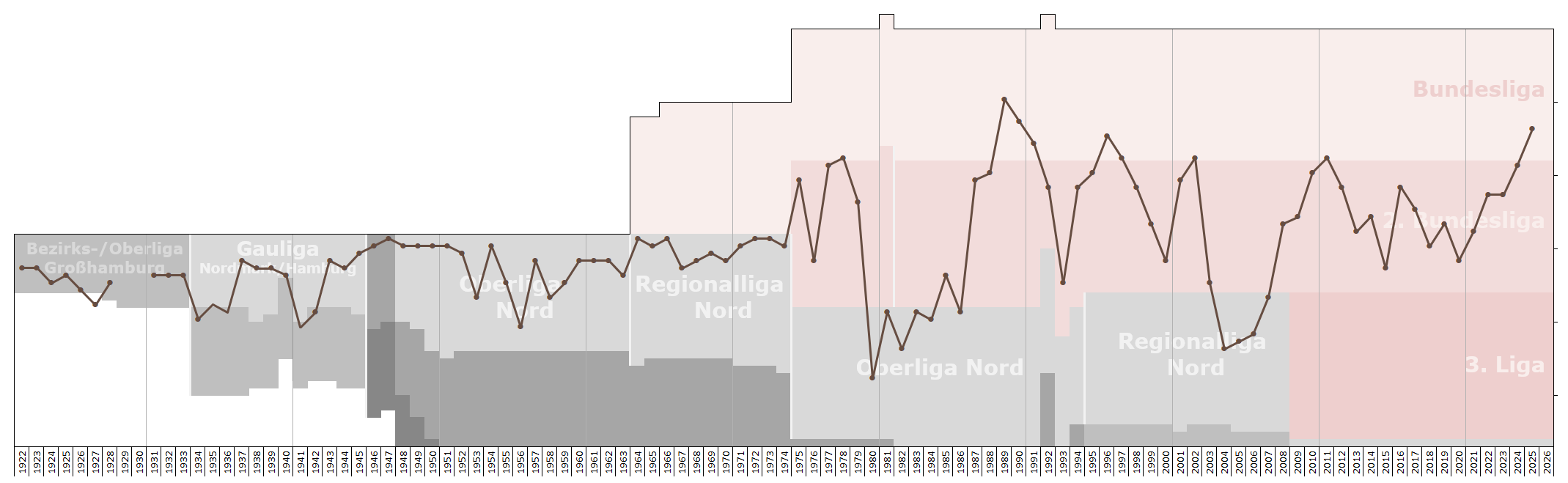 Chart of end-season table positions of FC St Pauli in the football league system of Germany. Data source: RSSSF, wikipedia, f-archiv.de, fussball.de